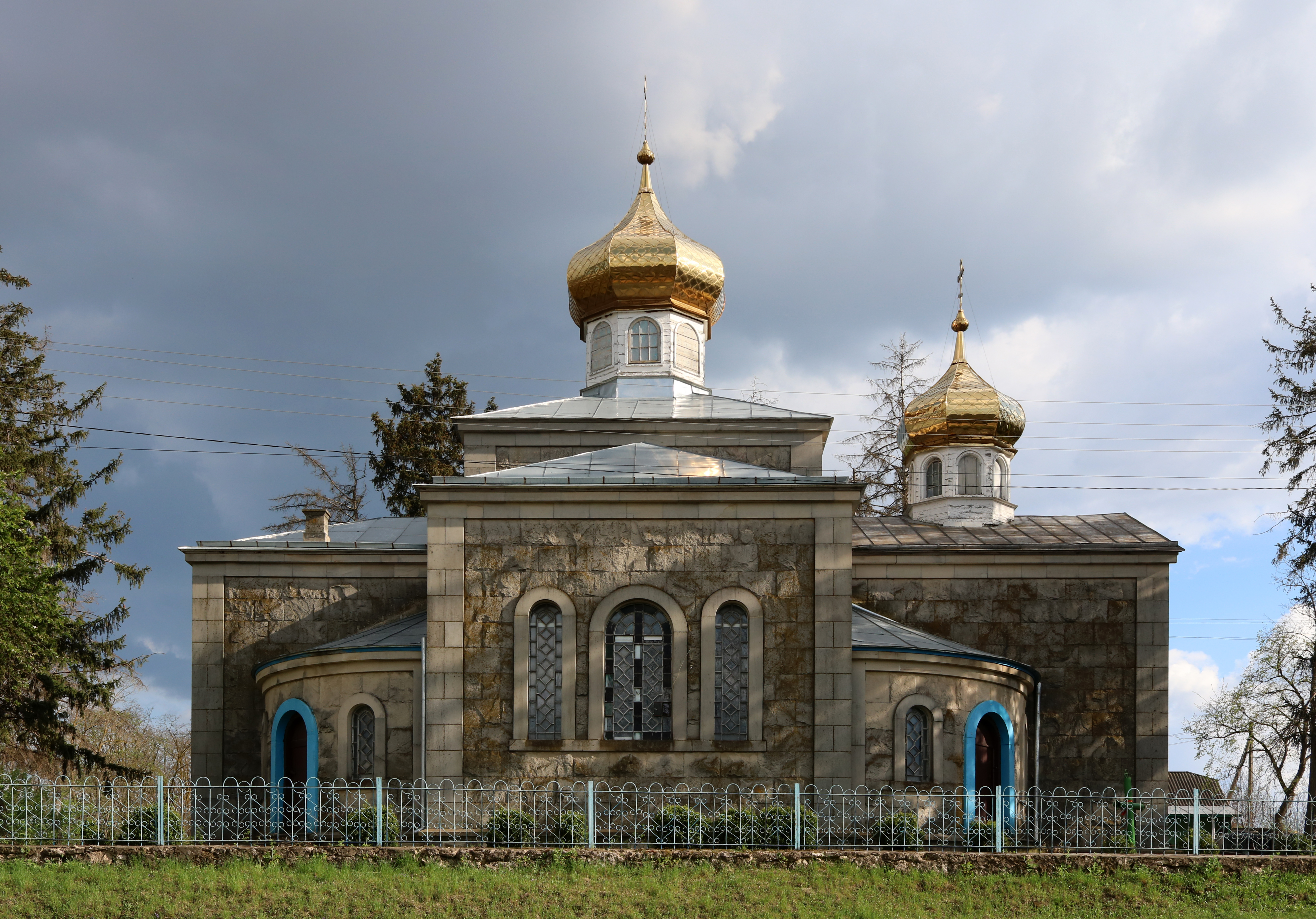 Church of the Nativity of the Theotokos in the village of Komargorod. Tomashpil Raion of Vinnytsia Oblast.